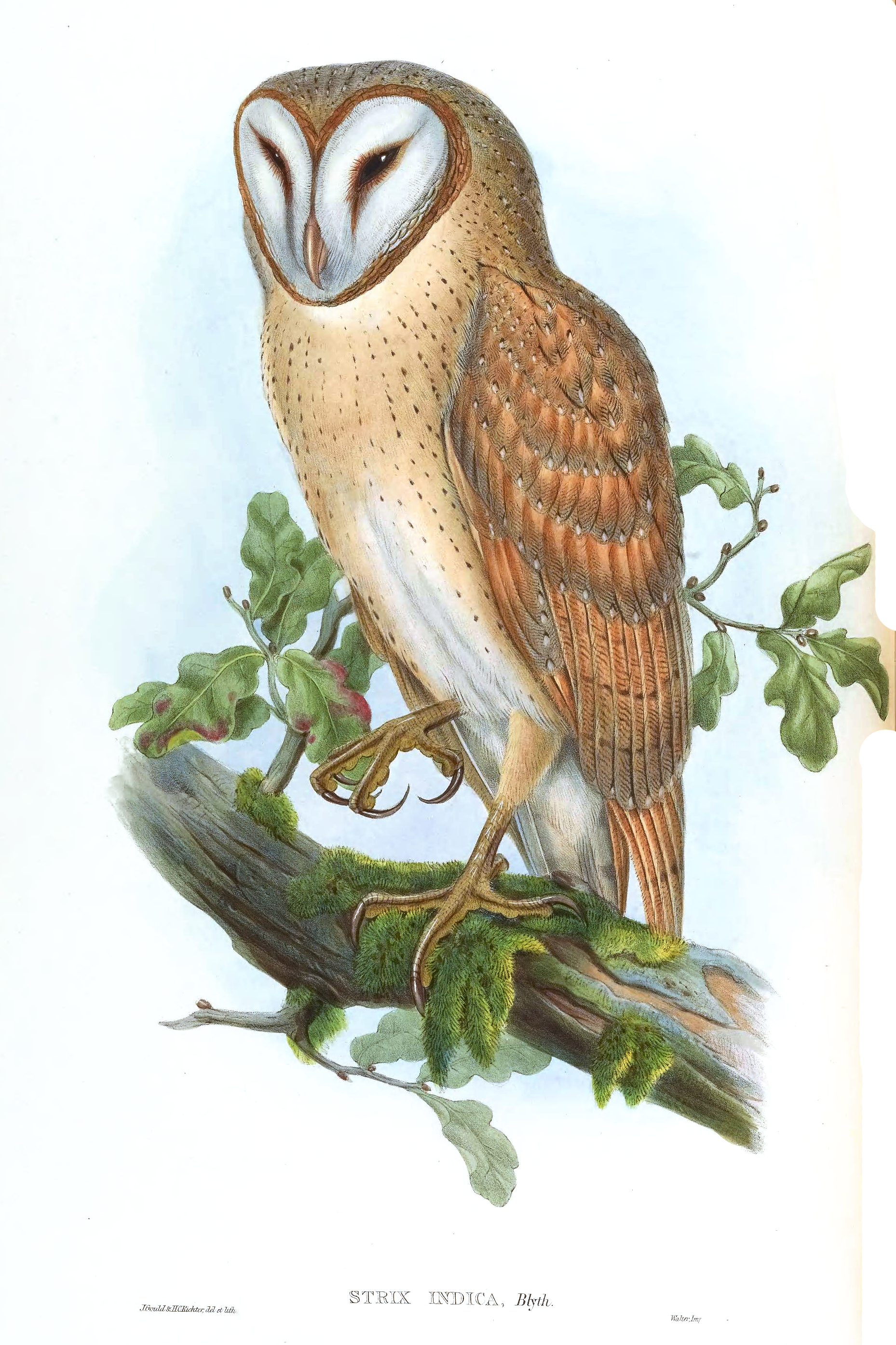 Strix Indica = Tyto alba